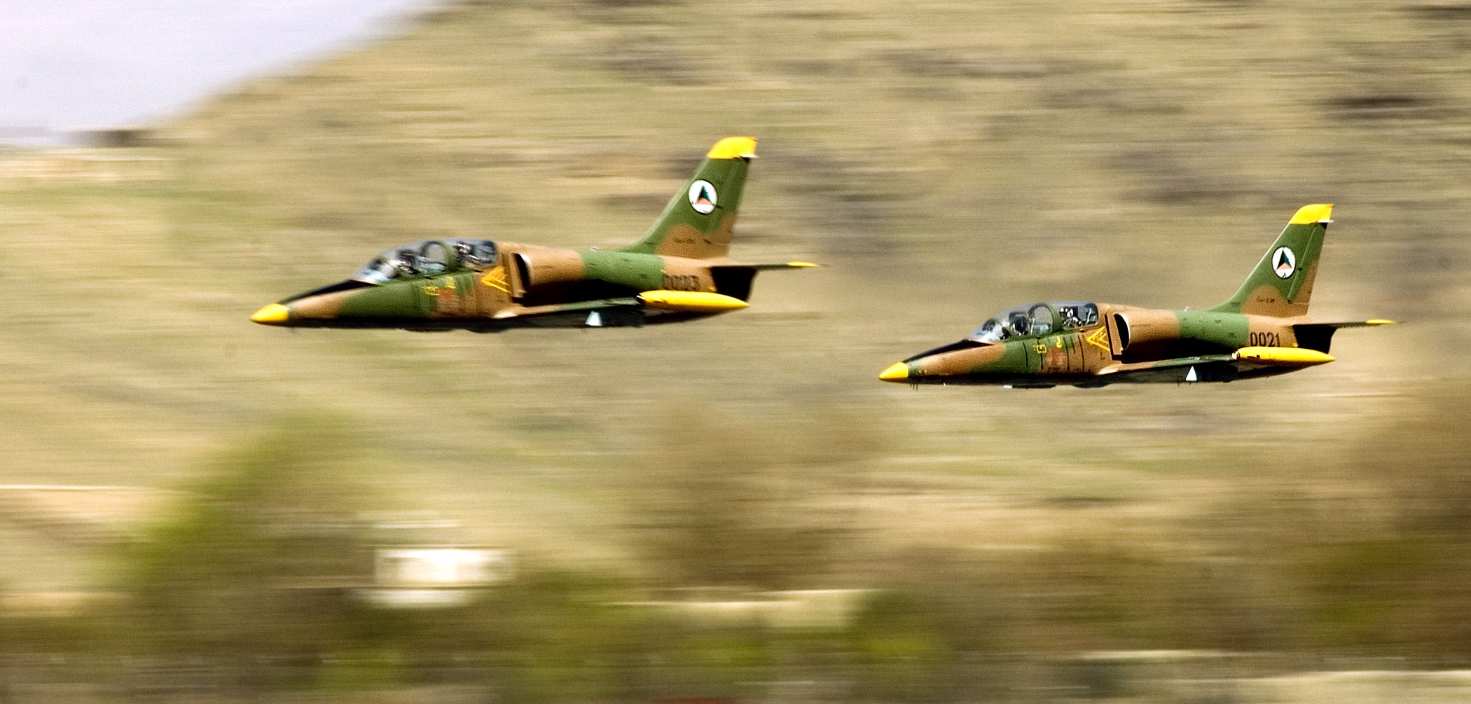 Afghan National Air Corps L-39 Albatross jets take off in a formation practice for the aerial parade in the upcoming Afghan National Day in Kabul. Air Force mentors assigned to Defense Reform Directorate Air Division under Combined Security Transition Command - Afghanistan provide guidance to soldiers with the Maintenance Operations Group for the ANAC.